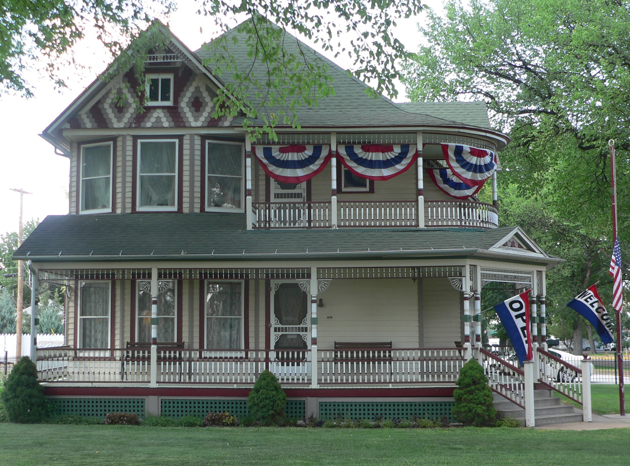 Ennis-Handy house, located at 202 W. 13th Street in Goodland, Kansas; seen from the south.